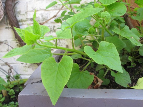 Hablitzia tamnoides, in April, in its third year